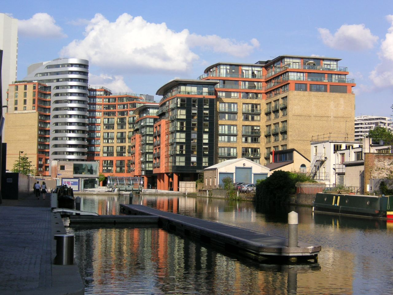 Paddington Basin, Westminster, England. The tower block of the Hilton London Metropole hotel can just be seen at extreme left. The main buildings are the Balmoral Apartments.